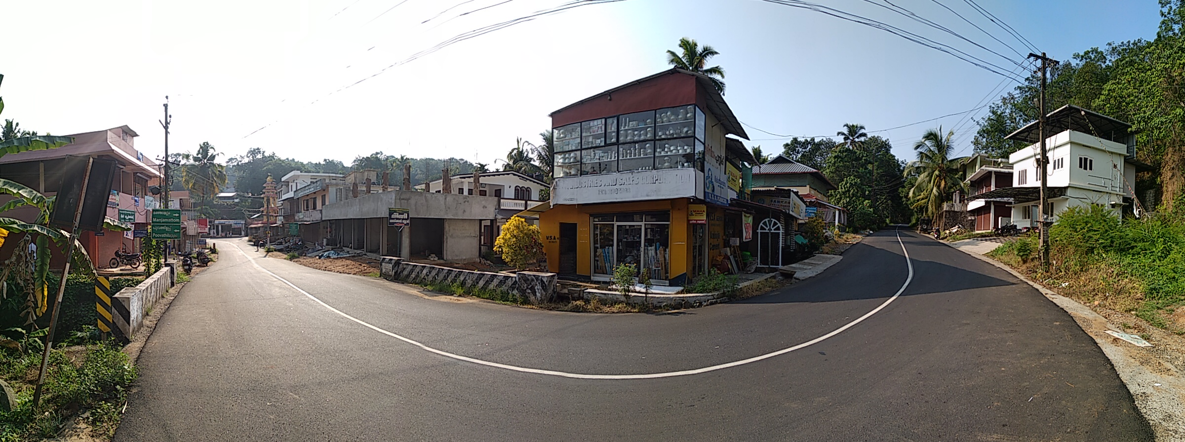 kottayam village